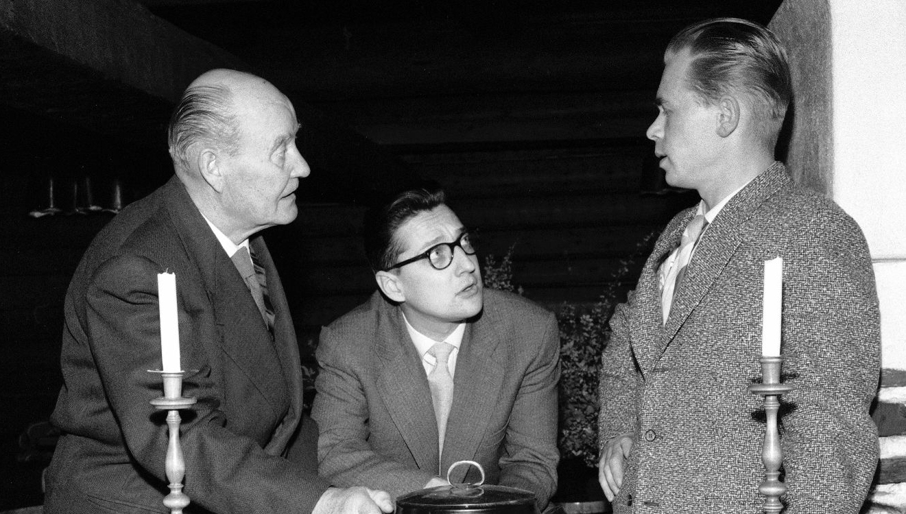 Photograph of the Finnish stage director Wilho Ilmari (1888–1983), theater director Sakari Puurunen (1921–2000) and writer Veikko Huovinen (1927–2009) discussing Huovinen’s play Havukka-ahon ajattelija. Photographed at Kestikartano, Helsinki.